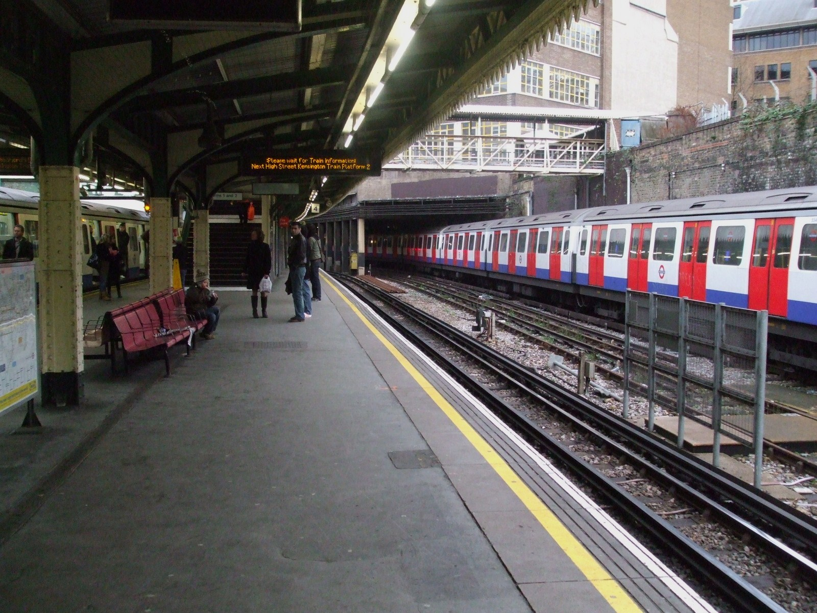 Edgware Road tube station (Circle/District/Hammersmith & City lines) platform 4 looking east. Usually used by through westbound trains (except for District line trains, which arrive from the west to terminate here). Note sidings on right, with C Stock present.